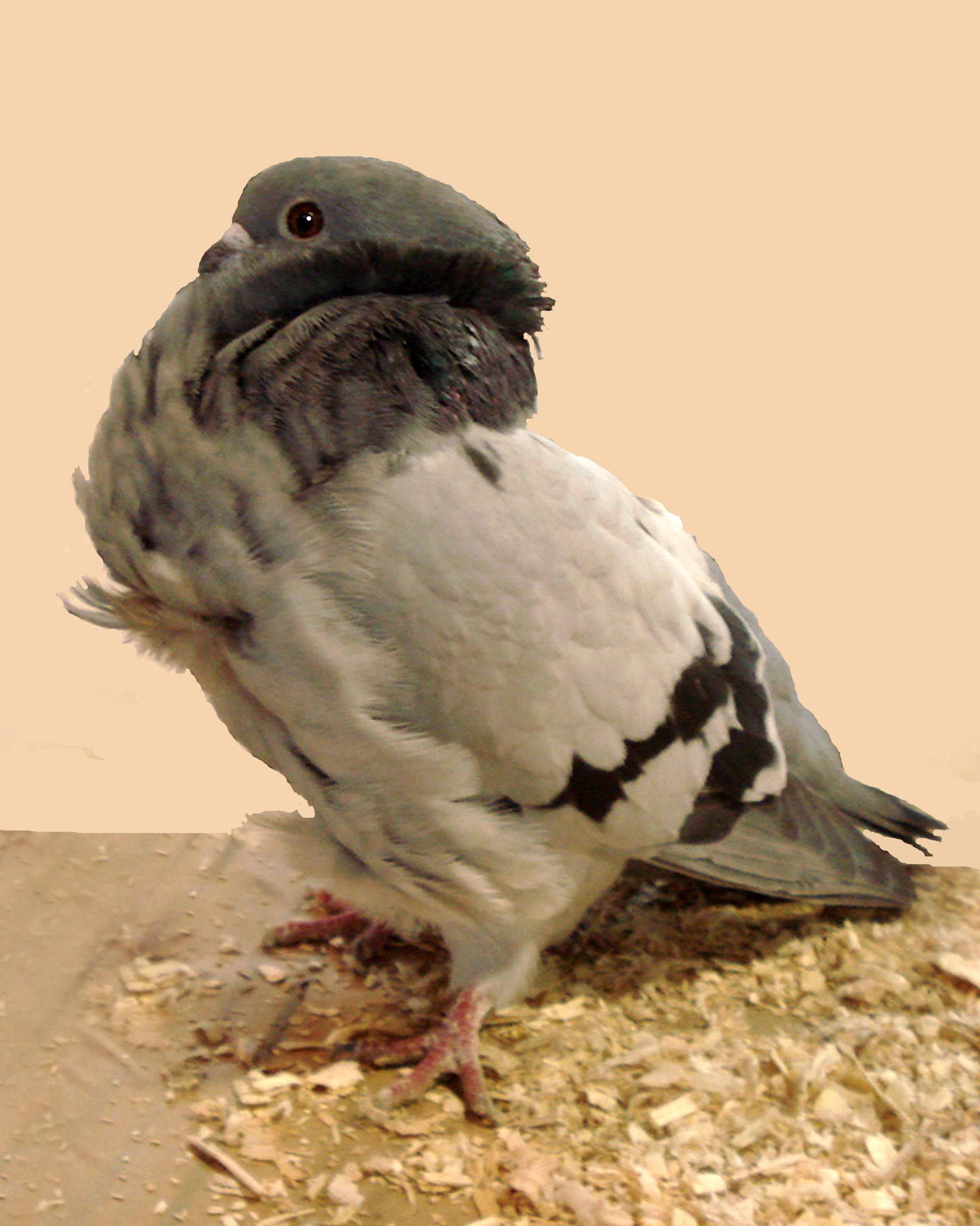 original photo by leestababee